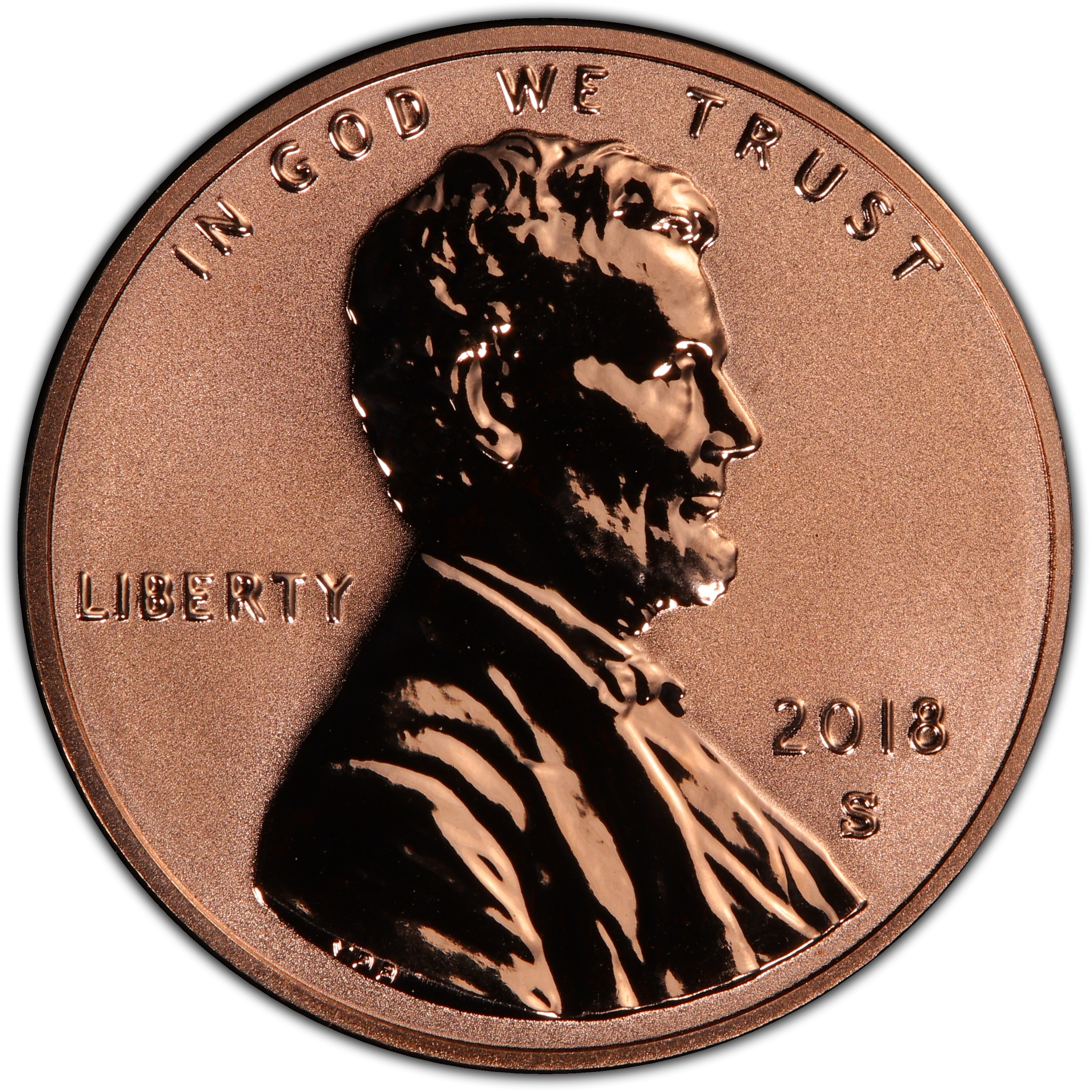 2018-S proof Lincoln cent (reverse cameo)